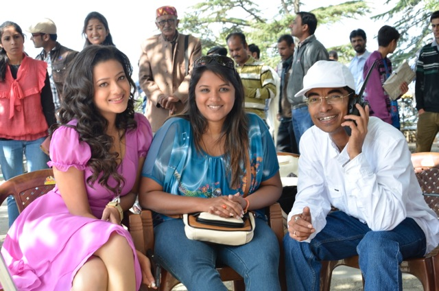 Kaushik Ghatak along with Madalsa Sharma and Kavita K. Barjatya On The Sets of Samrat & Co.